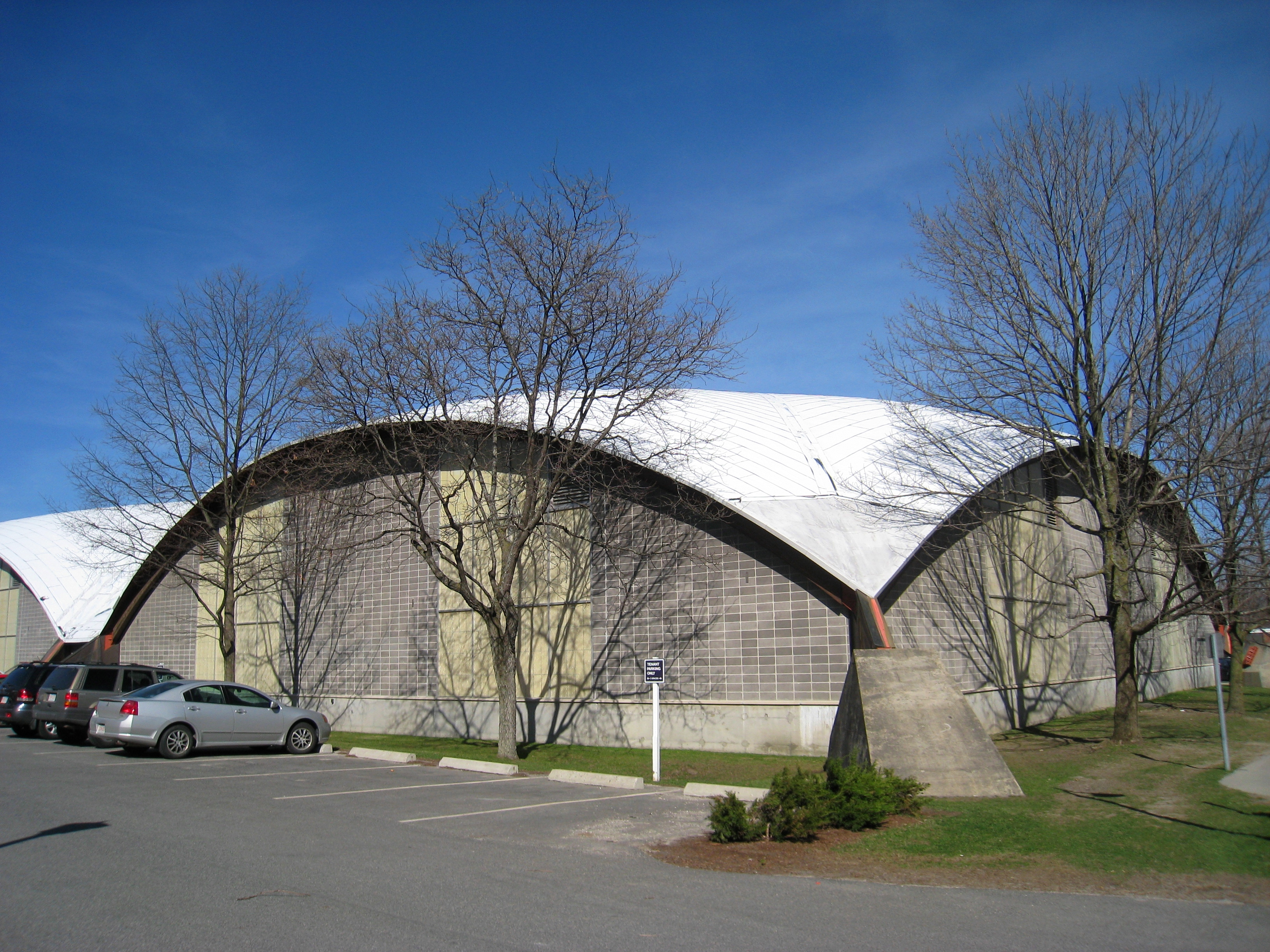 Williams College - Towne Field House. Williamstown, Massachusetts, USA.